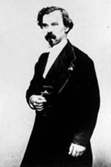 Photograph of Jules Antoine Lissajous, 1822-1880.